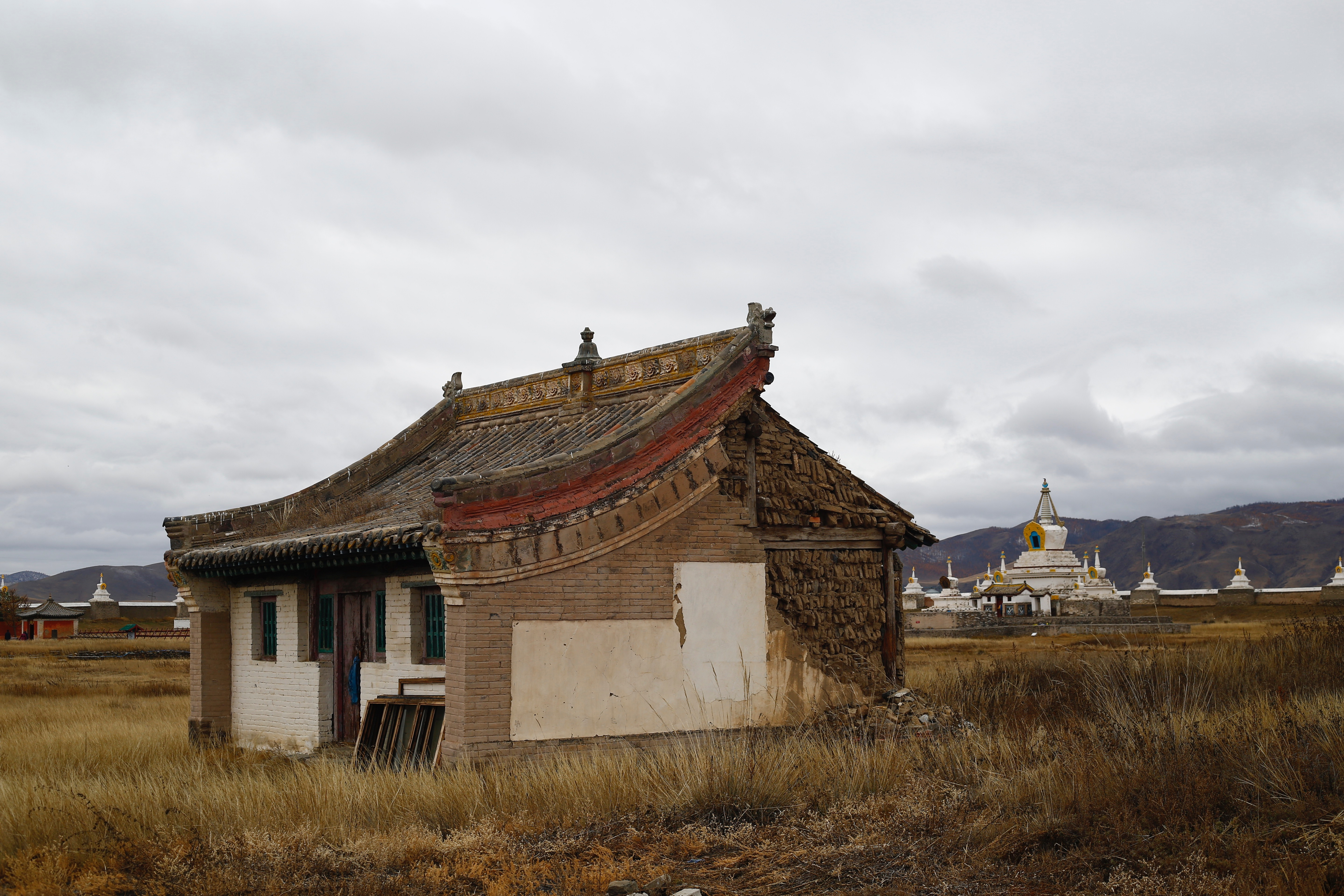 A temple at Erdene Zuu Monastery, Mongolia, slowly succumbs to the elements- left there as a reminder of impermanence.